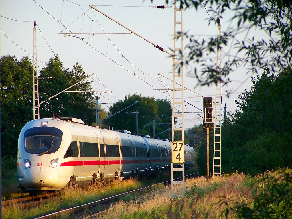 Three DBAG Class 605 Diesel Multiple Unit trains from Berlin to Warnemünde shortly before Rostock Central Station.